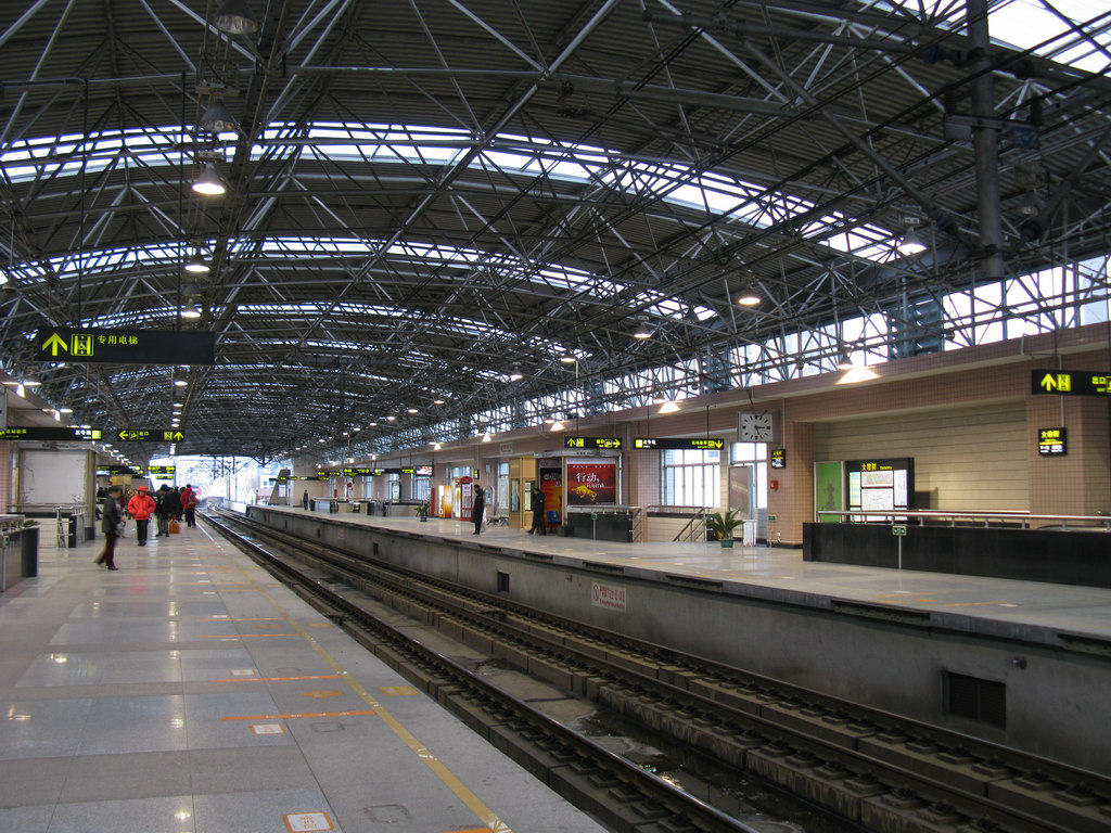 Line 3 Platform of Dabaishu Station, Shanghai Metro